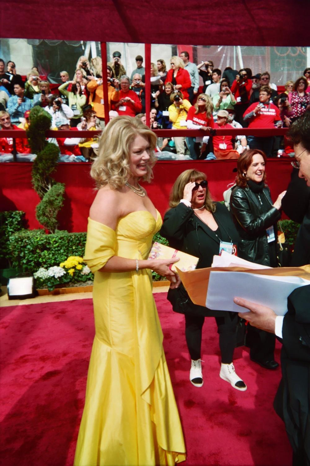 Mary Hart at 80th Academy Awards.